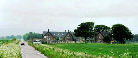 Geograph-1899523-by-Steven-Brown